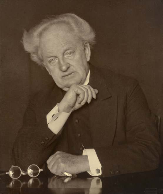 Gerhart Hauptmann, 1929, by Hugo Erfurth, silver gelatin, 28,1 x 23,6 cm